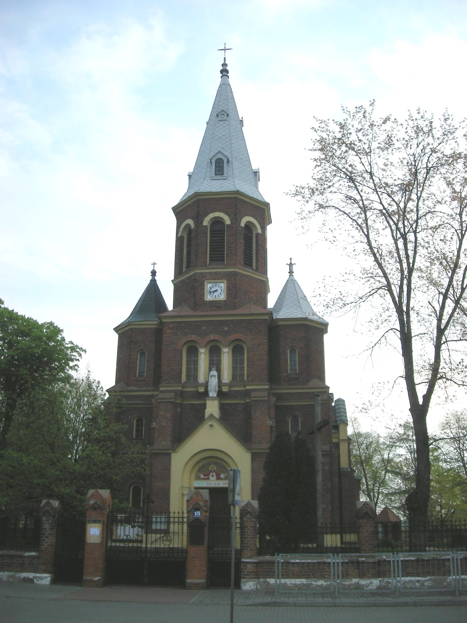 The church in Lubień Kujawski, Poland.